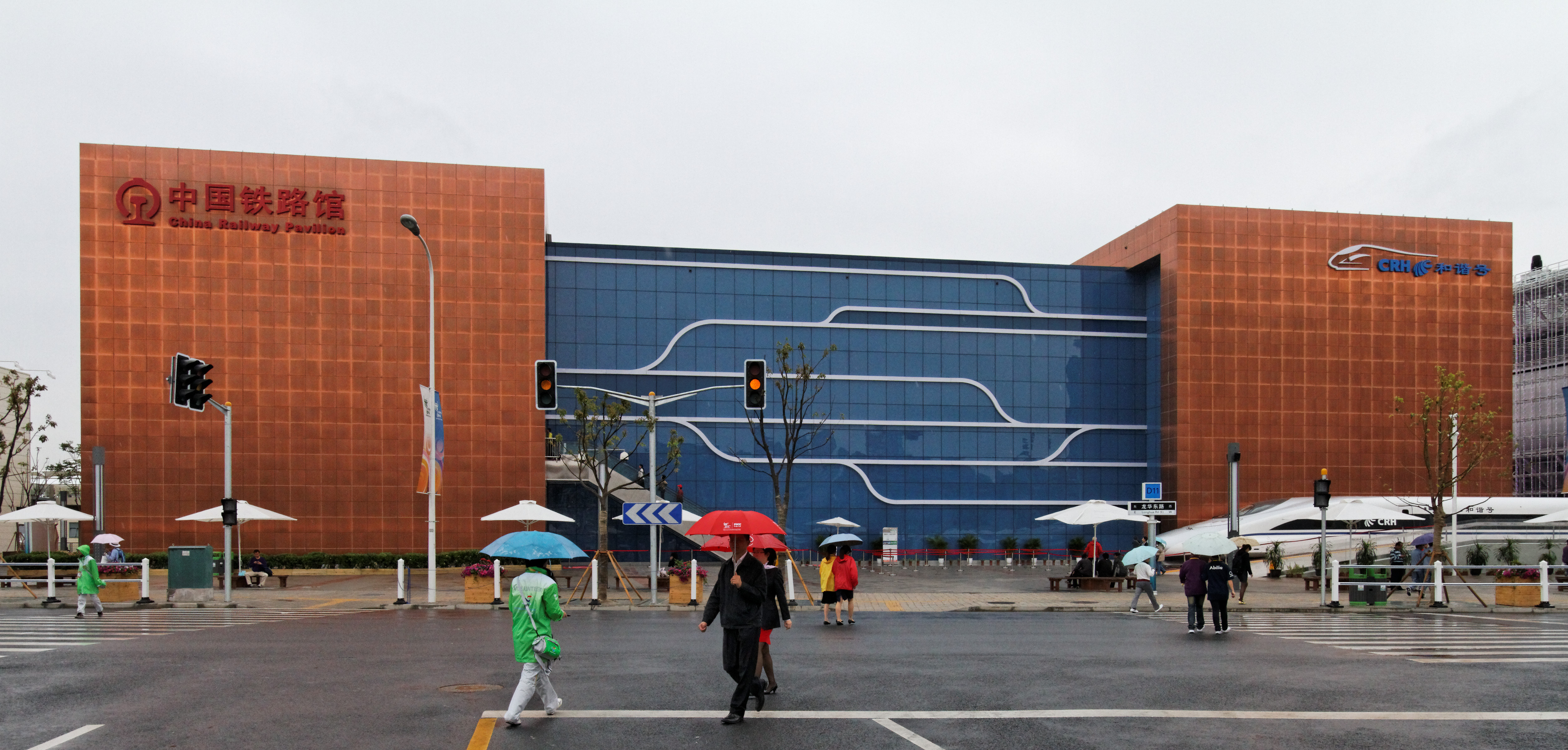 China Railway Pavilion, Expo 2010